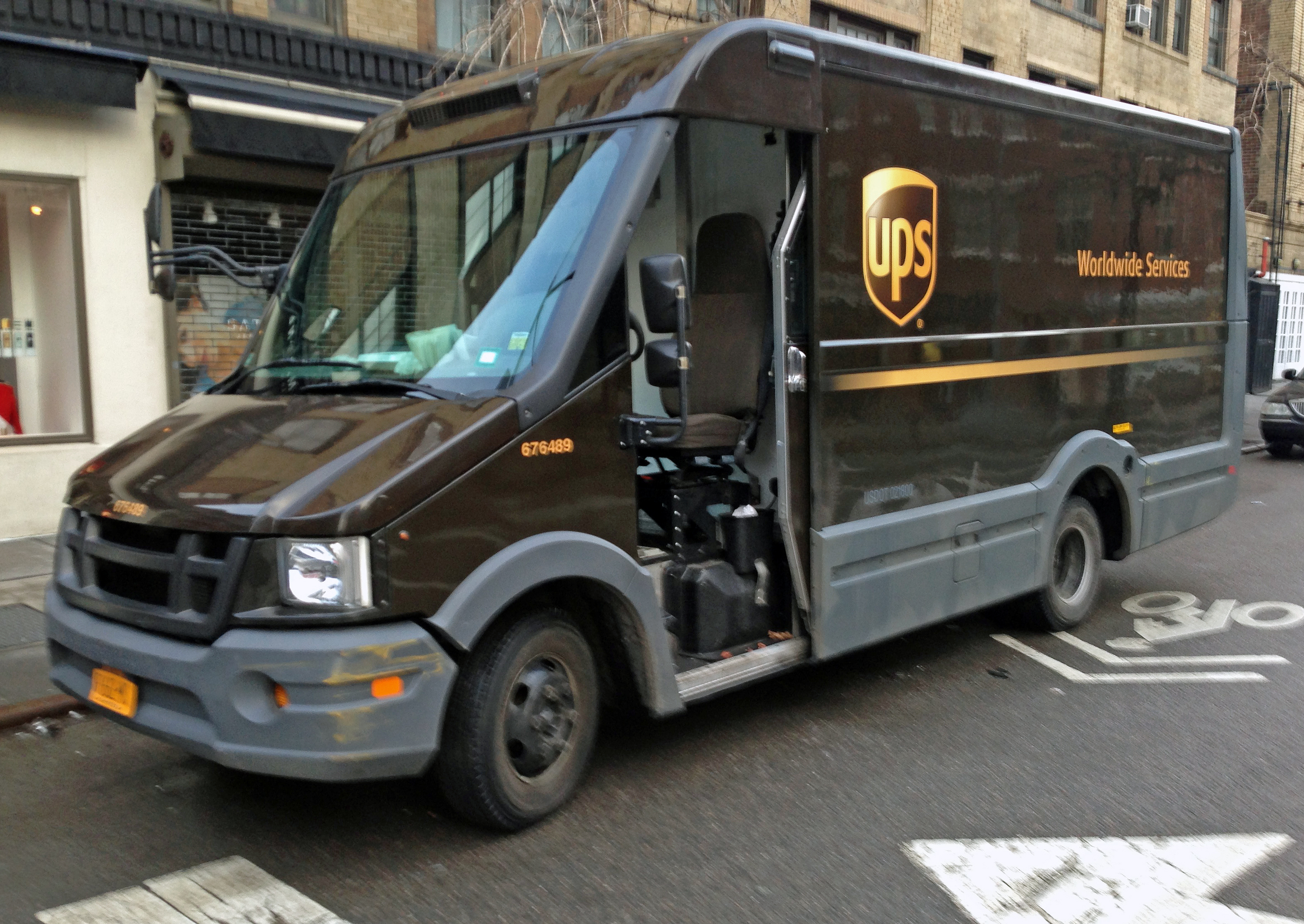 A 2012 Isuzu Reach van, belonging to the UPS.